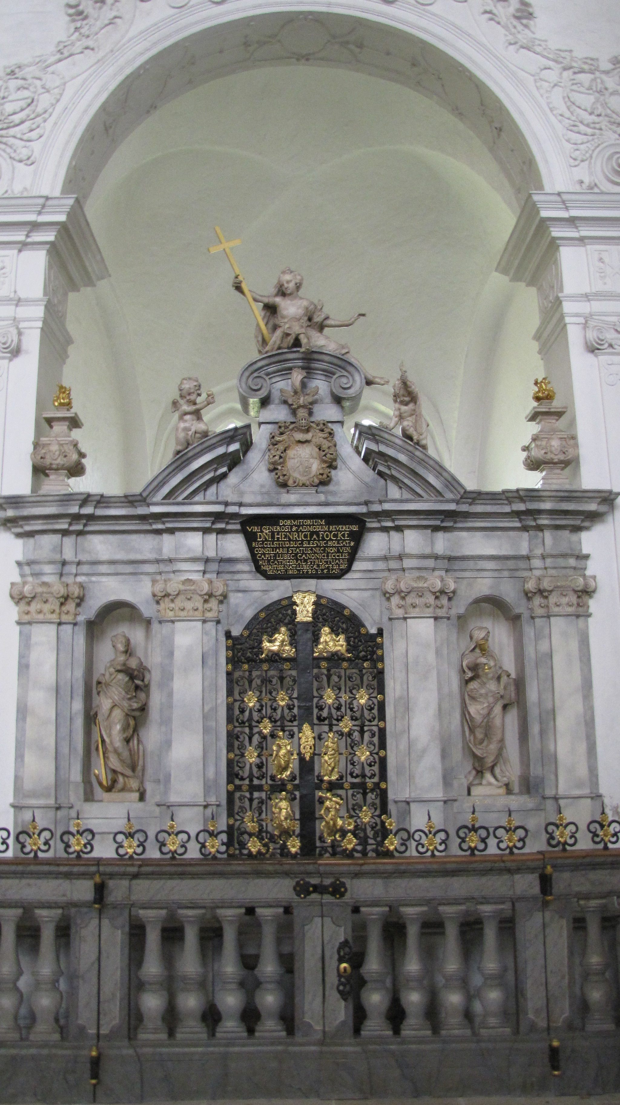 Burial chapel for canon Heinrich von Focke (1673-1730), sculptures by Hieronymus Hassenberg